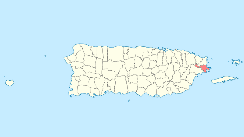 Municipal locator of Puerto Rico